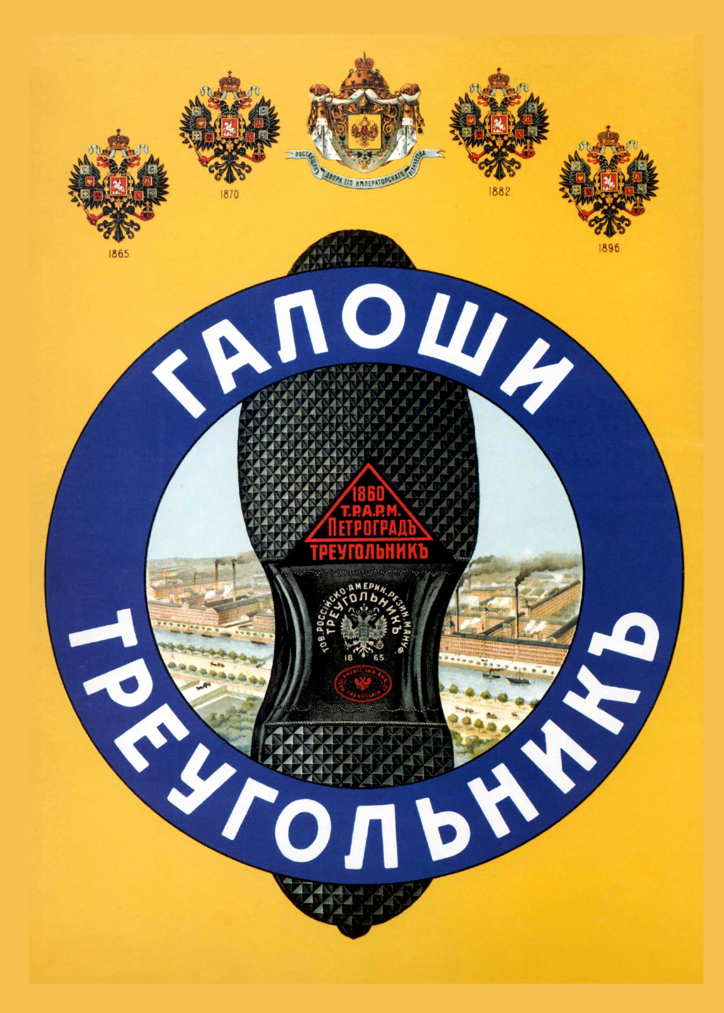 Poster imaging shoes manufactured on Treugolnik Factory. Russian Empire, the early XXth century.